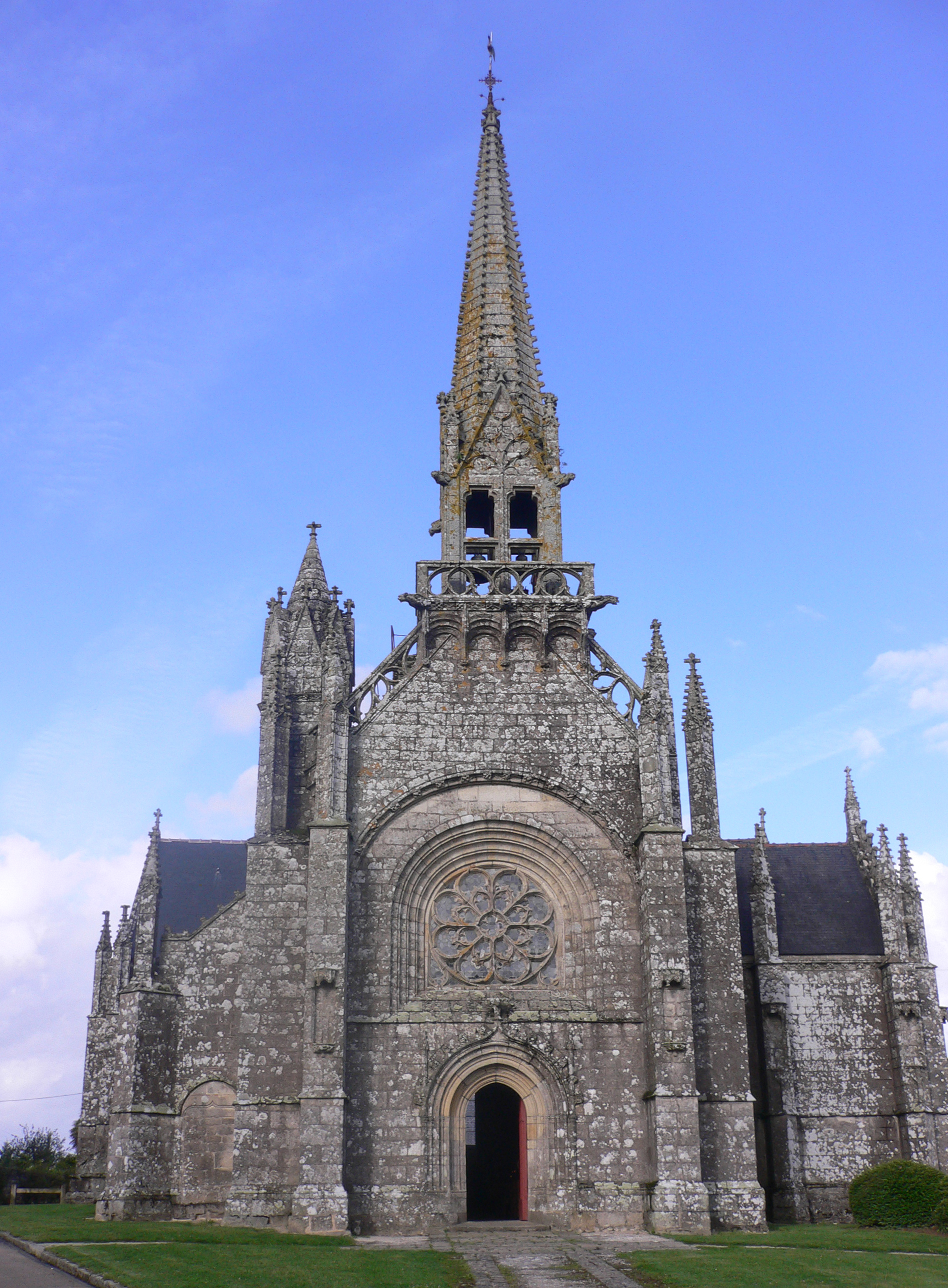 Kernascleden church